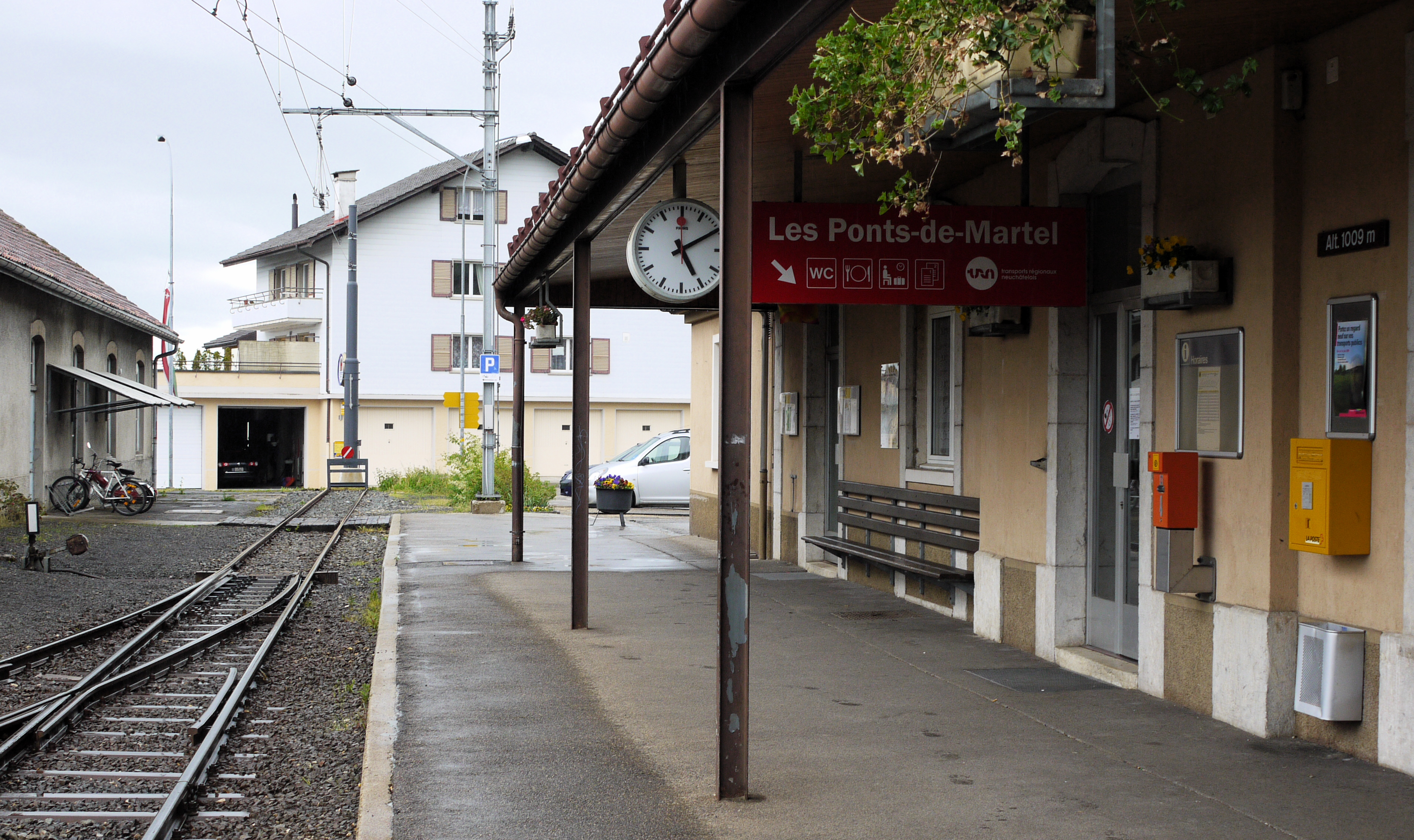 Les Ponts-de-Martel, terminal station of the line from La Chaux-des-Fonds run by Transports Régionaux Neuchâteloises. Kind of rainy and not much going on.